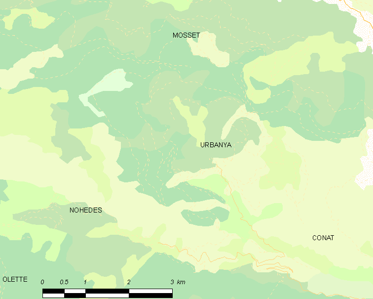 Map of French municipality